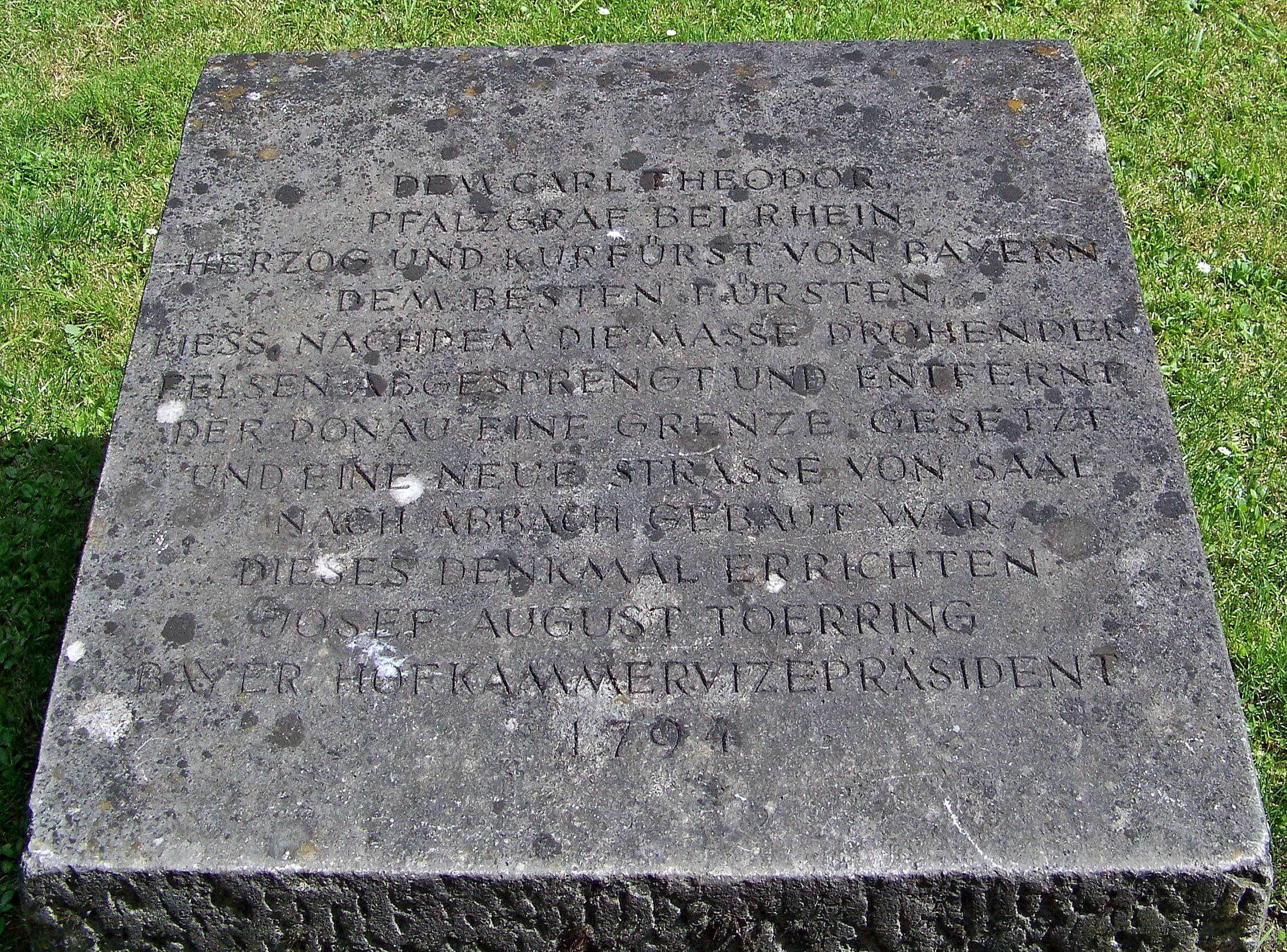 Bad Abbach-Eiermühle deutsche Inschrifttafel Löwendenkmal